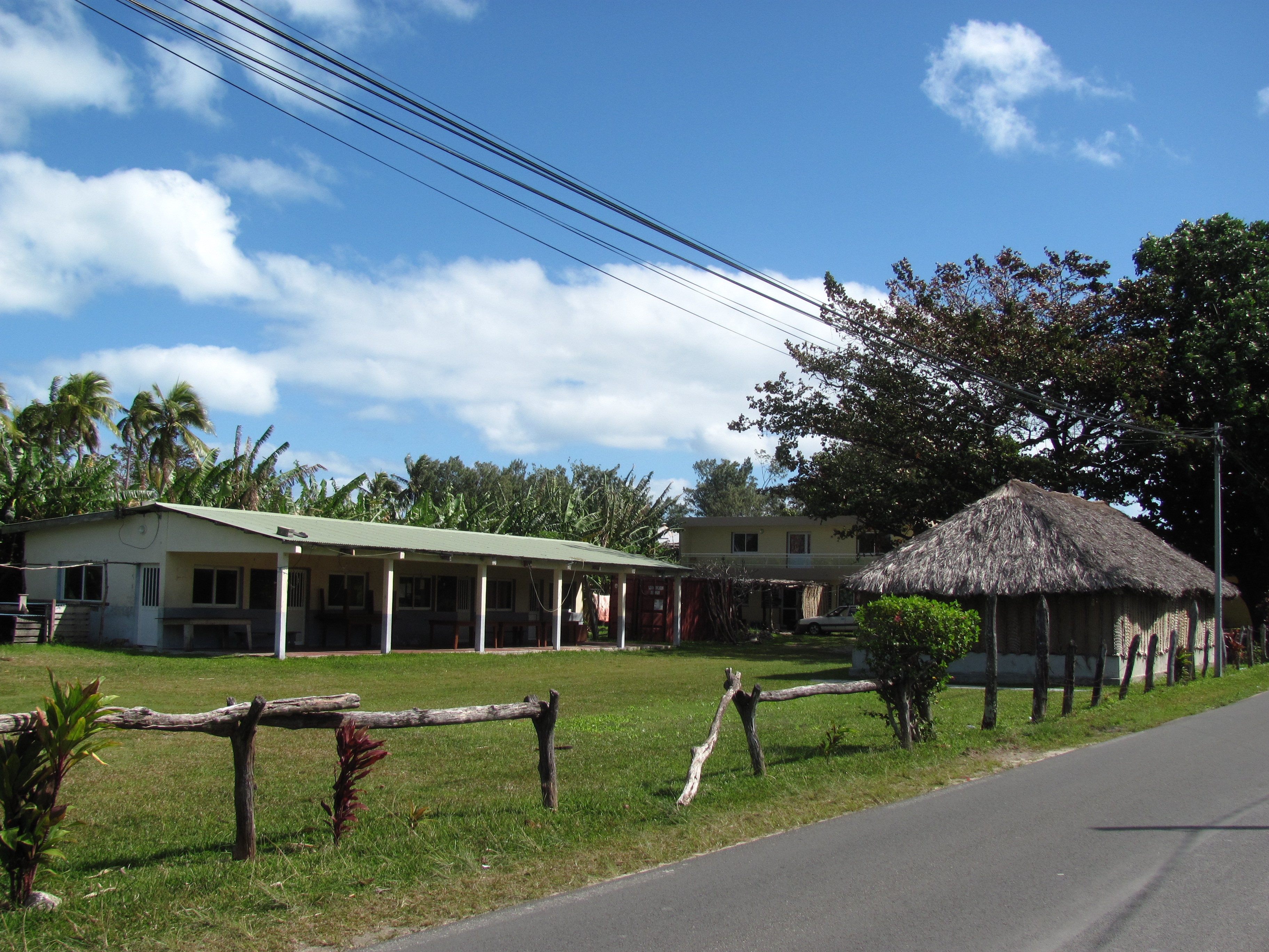 High Street, Banoutr, Ouvéa Island, New Caledonia